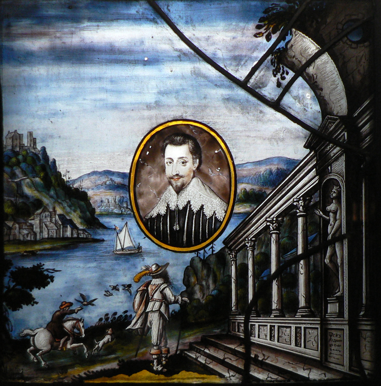 Stained glass portrait said to be of Francis Norris. This stained glass panel is one of a set of four which were formerly in the windows of Wytham Abbey, Oxfordshire.